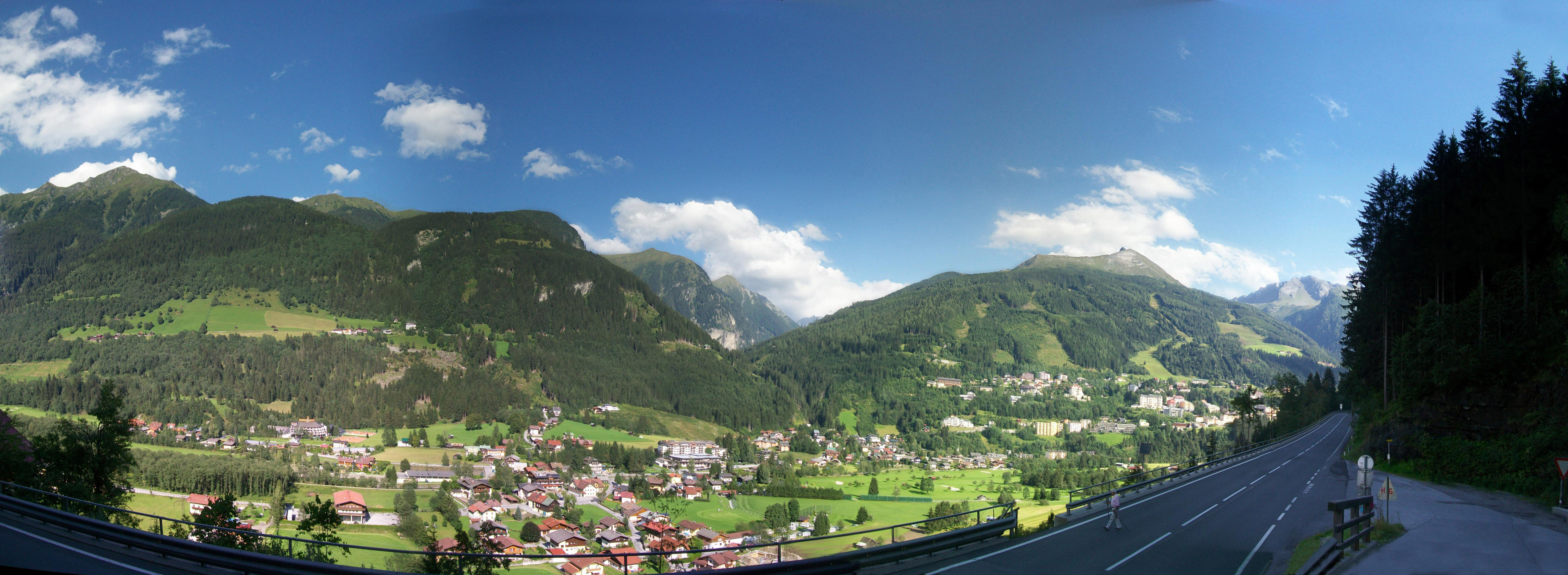 Pano from "Gasteinertalbundesstraße" (Gasteinertal highway).